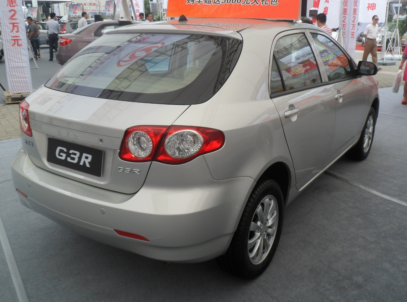 BYD G3R photographed at the 2012 Chongqing Auto Show, Chongqing, China.